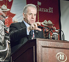 Giuliano Zaccardelli, Commissioner of the Royal Canadian Mounted Police (RCMP) gives remarks at the first IDEC to be held in Canada.